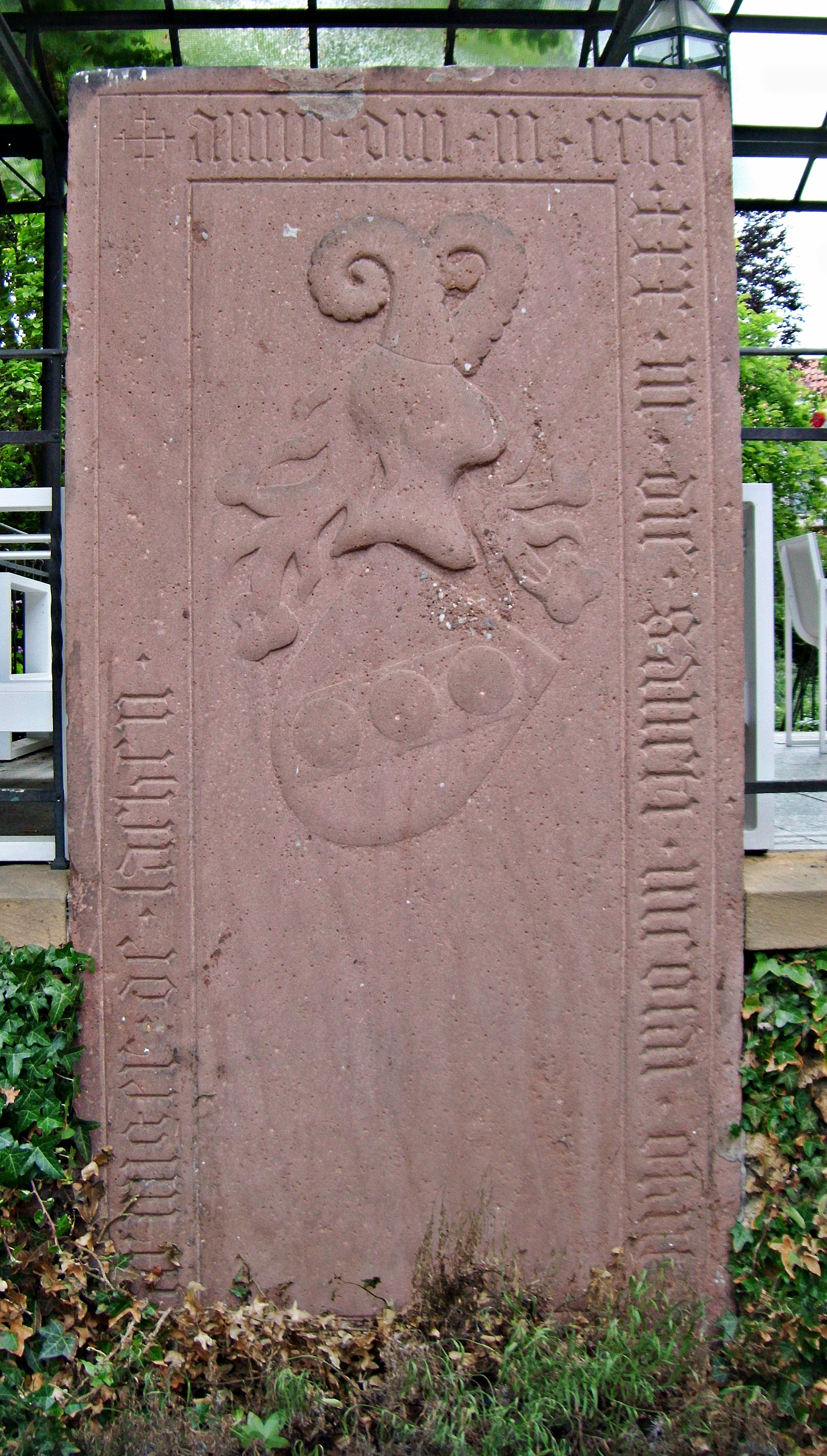 Grabplatte Arnold Schliederer von Lachen (+ 1430), Deidesheim, Ketschauer Hof